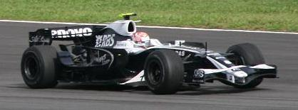 Kazuki Nakajima driving for Williams at the 2008 Malaysian Grand Prix.